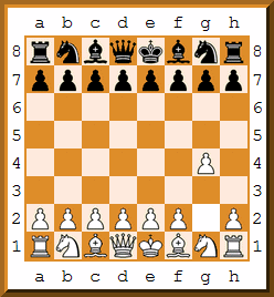 Un-animated version of